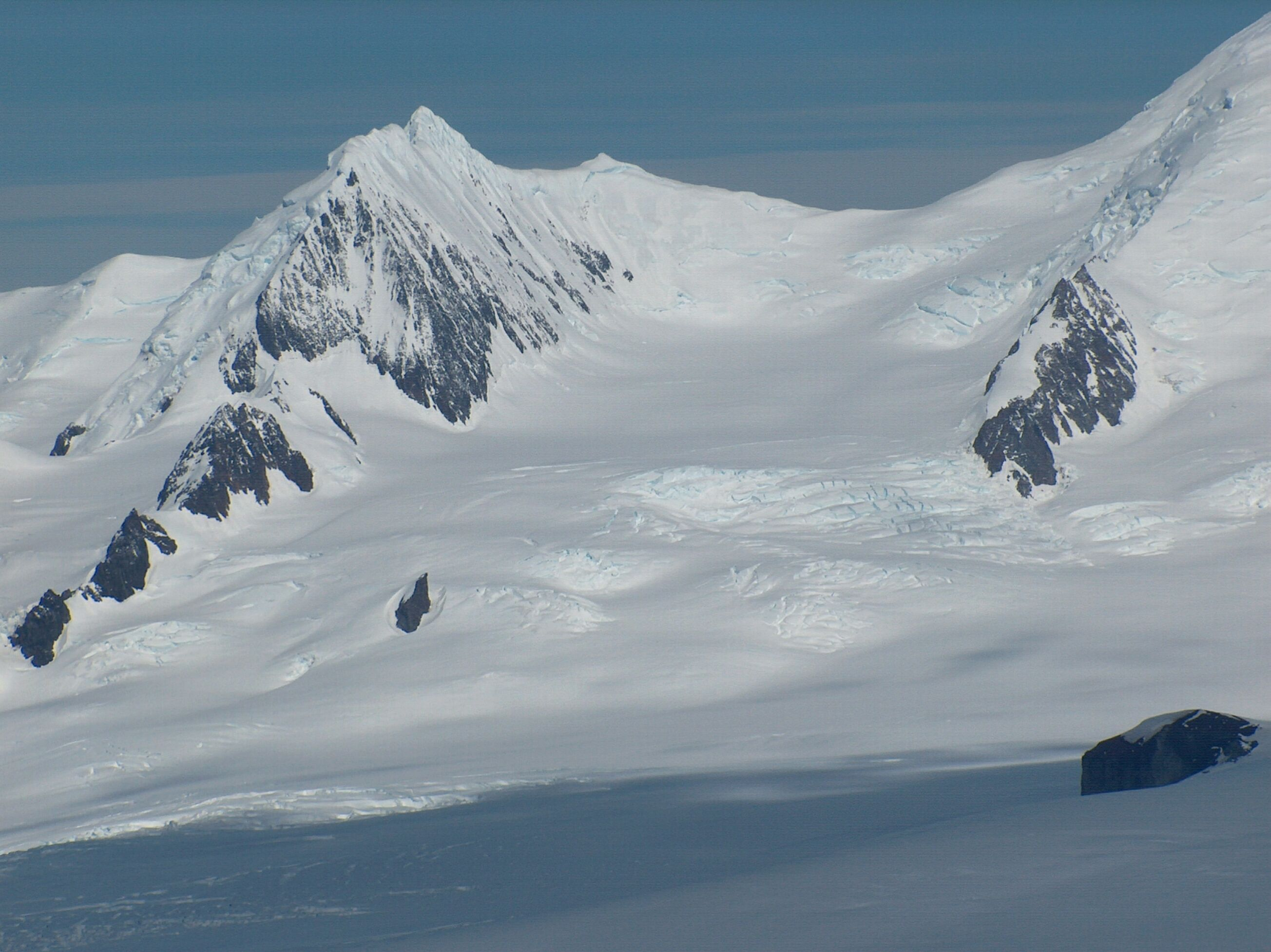 Author: Lyubomir Ivanov Source: the author